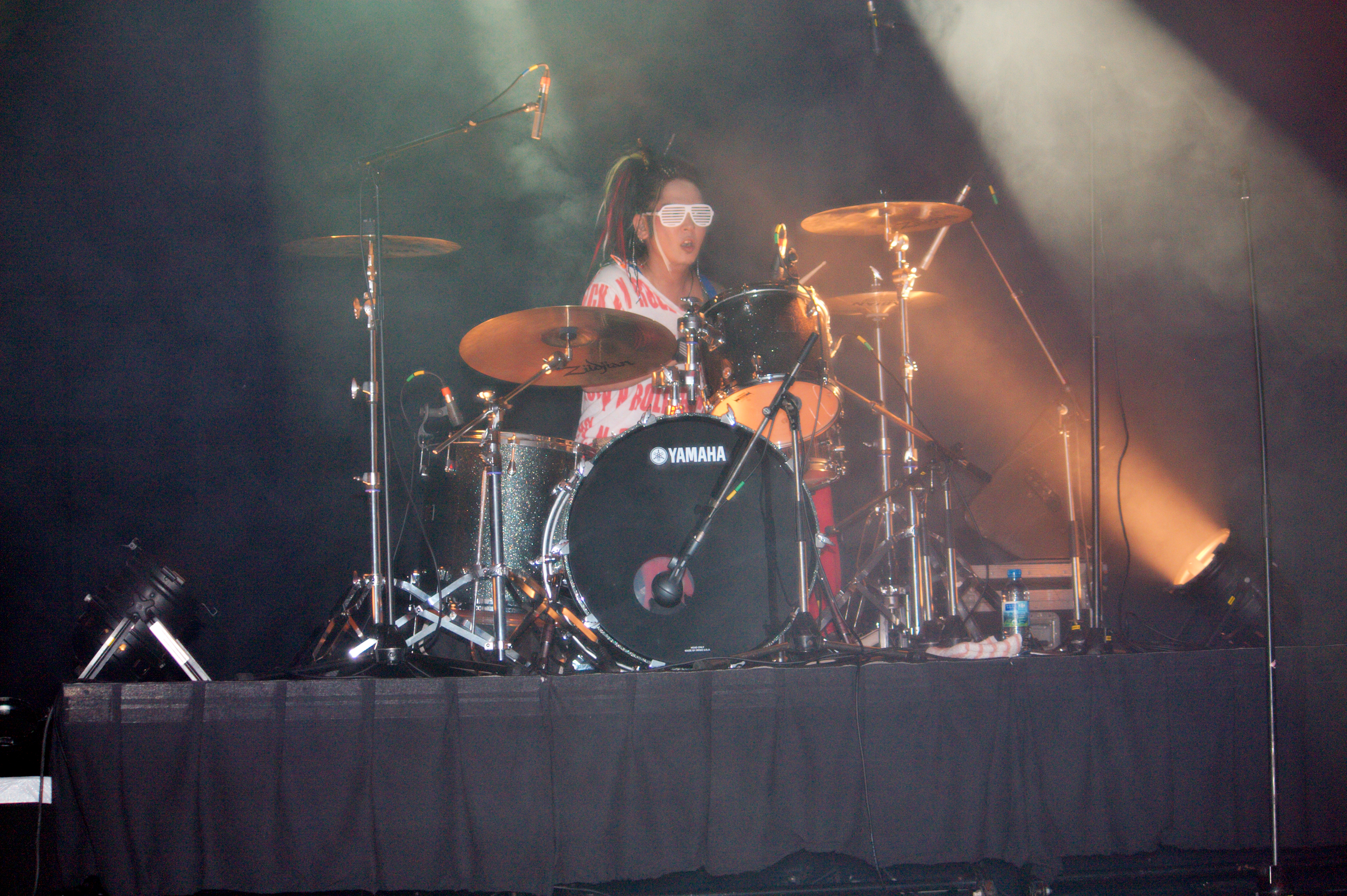 machine live at Japan Expo 2008 (Paris, France).